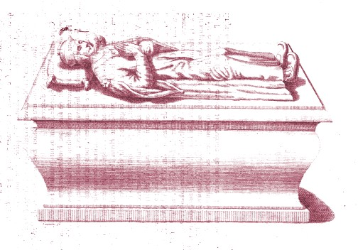 Humbert III, Count of Savoy